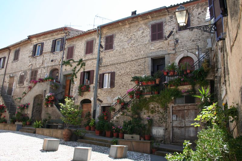 Frasso Sabino (Province of Rieti, Lazio, Italy)